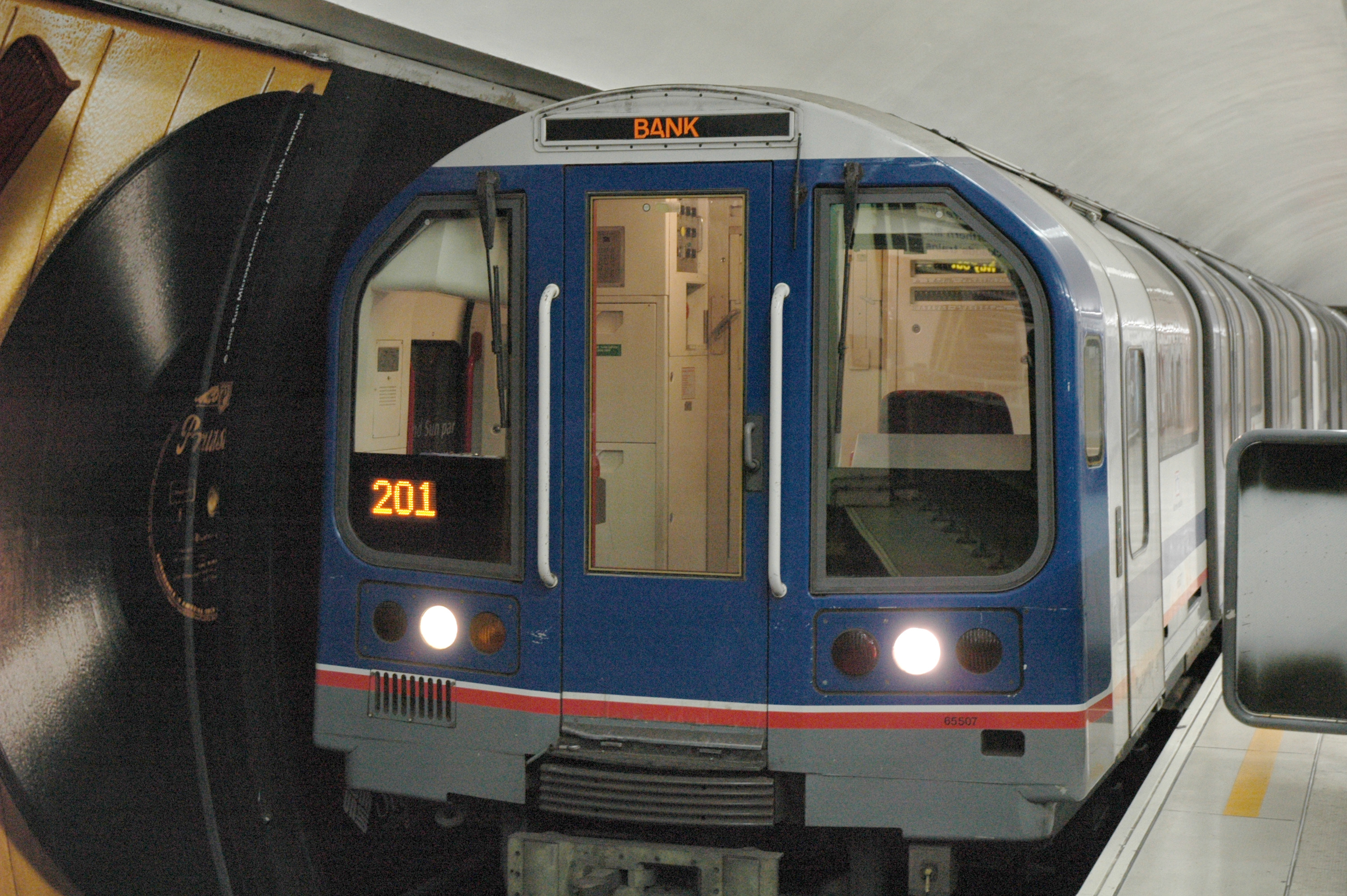 A train of modified 1992 stock stands at Bank station, on the London Underground's Waterloo and City Line.